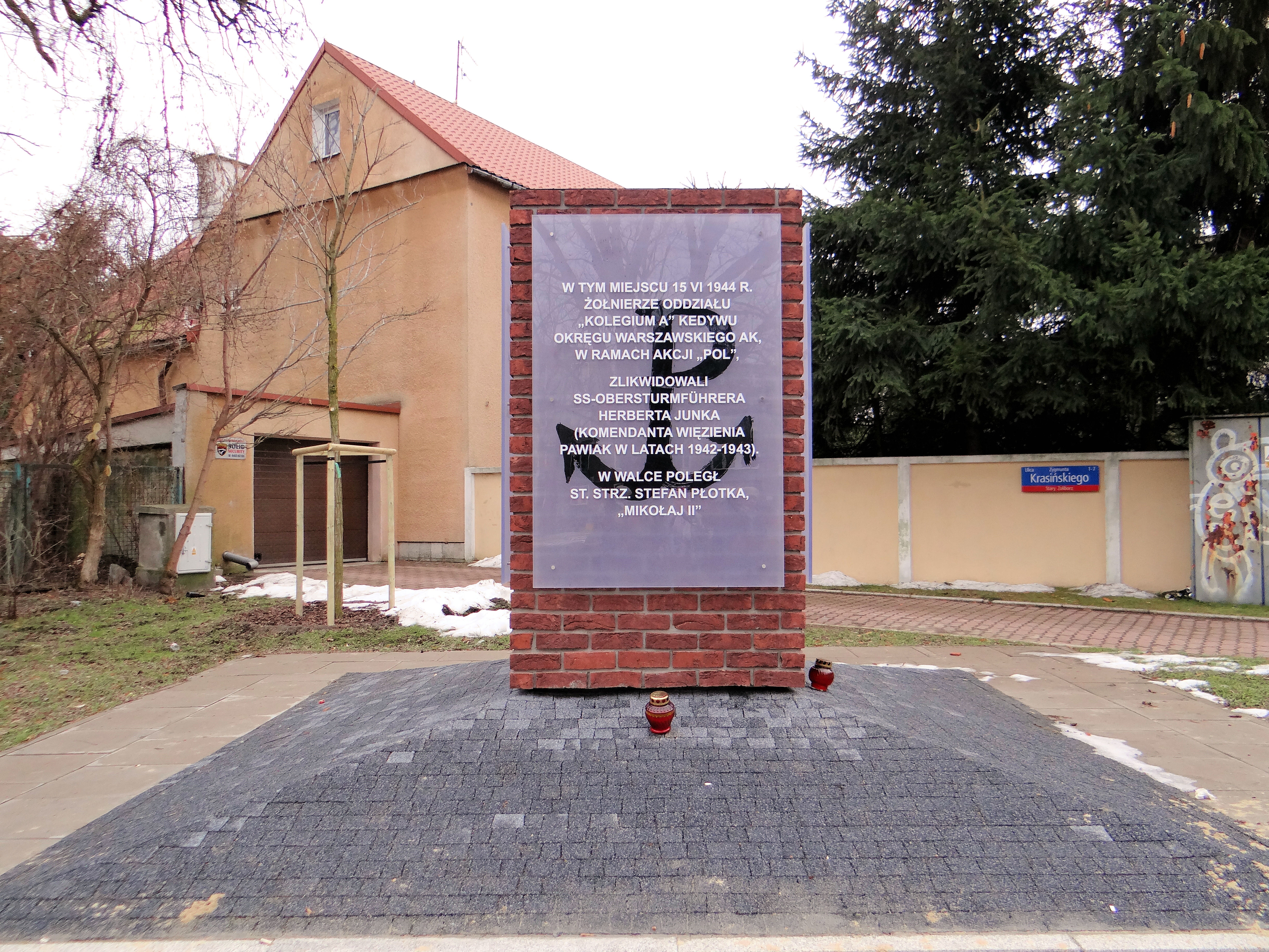 Monument in honor of the creator, the commanders and soldiers of the Warsaw branch of Kedyw AK "Kolegium A"